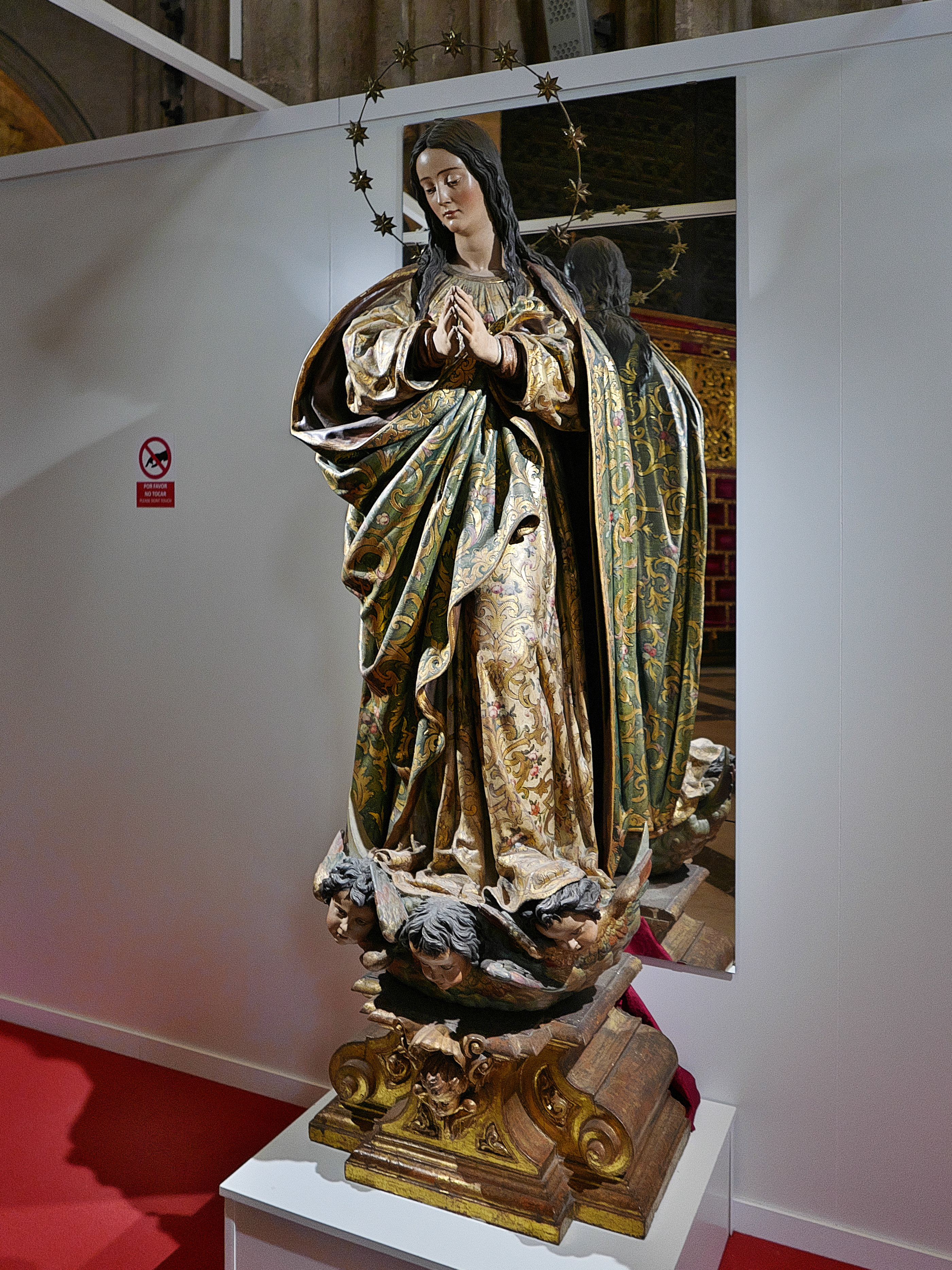 The Immaculate Conception, The Little Blind One. Juan Martínez Montañés (1629-1631).